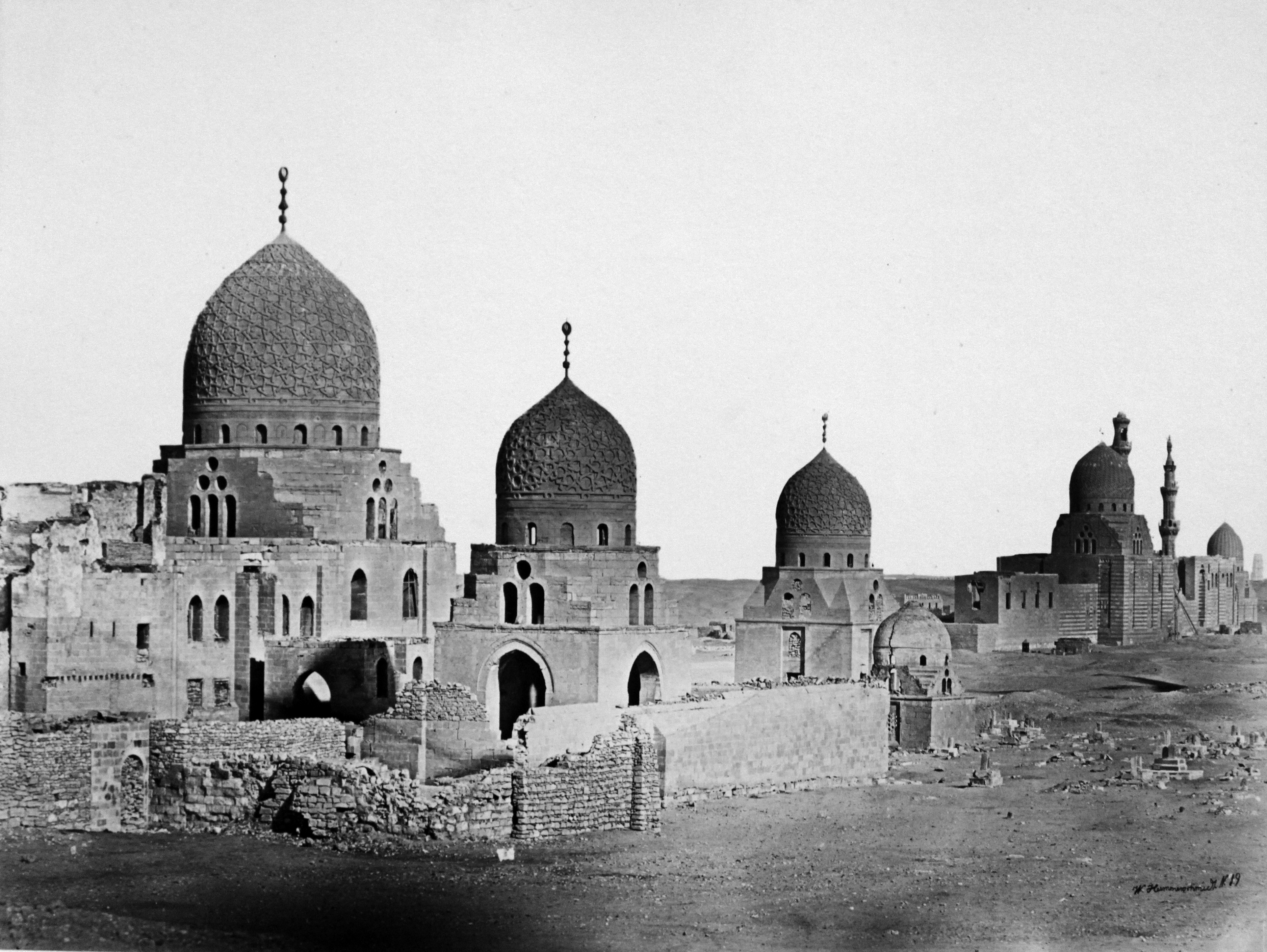 Cairo: Sultan Aschraff, Tomb of the Caliph